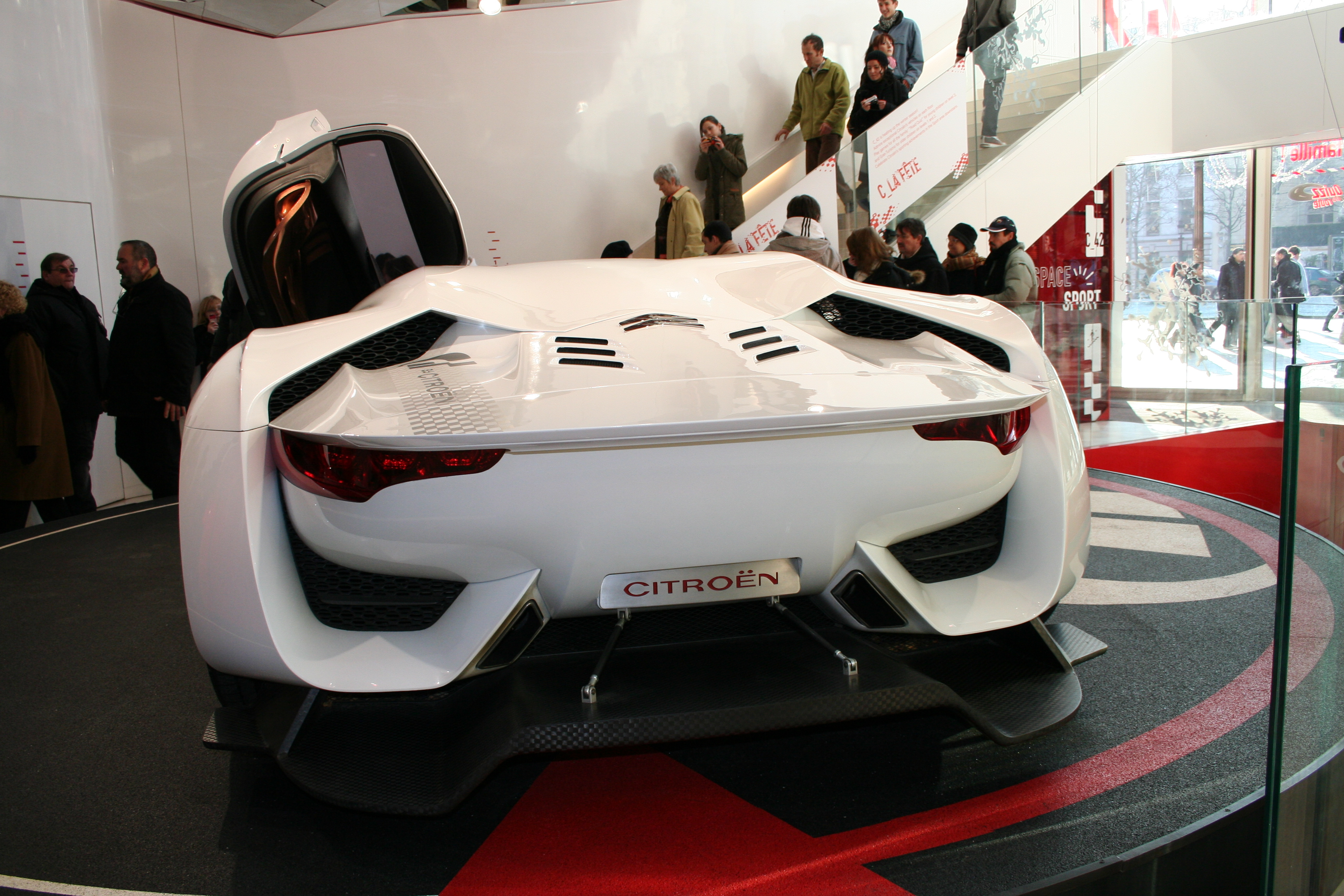 Citroën GTbyCitroën in the Citroen showroom at the Avenue des Champs-Élysées, Paris